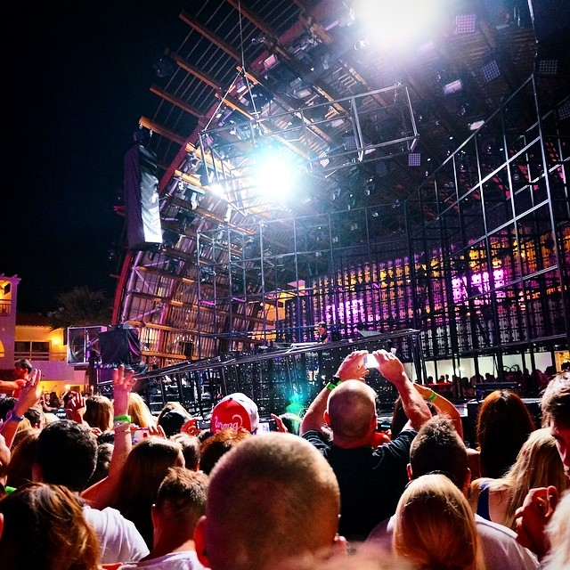 Avicii Playing DJ set at Ushuaia